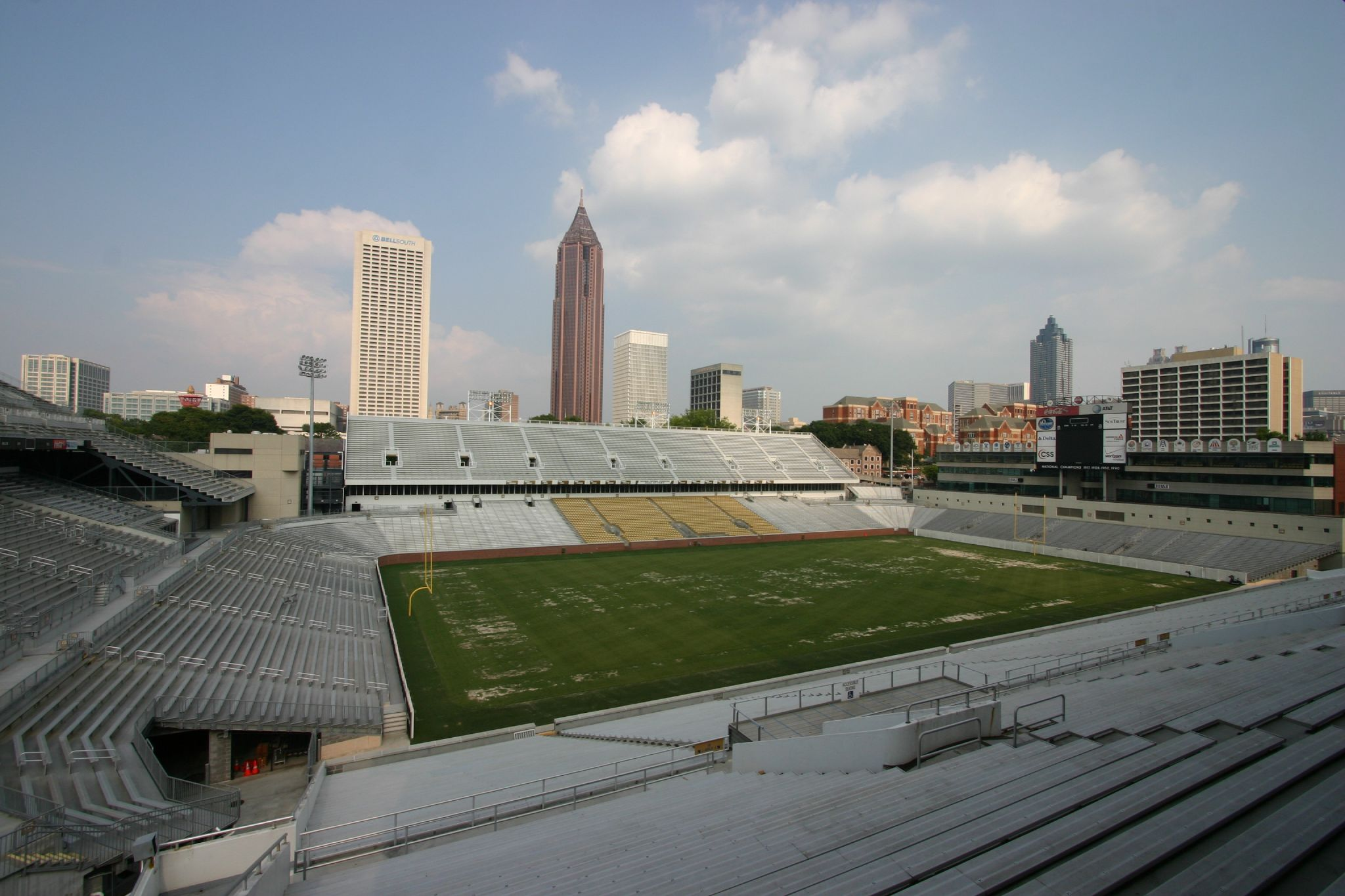 Bobby Dodd Stadium, Georgia Institute of Technology, Atlanta, Georgia, USA.Georgia Tech Stadium Mid Summer